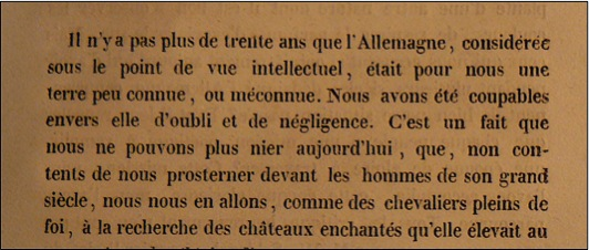 Beginning of foreword written by the French member of "Academie française" Xavier Marmier when "De l'Allemagne" had been published in 1839